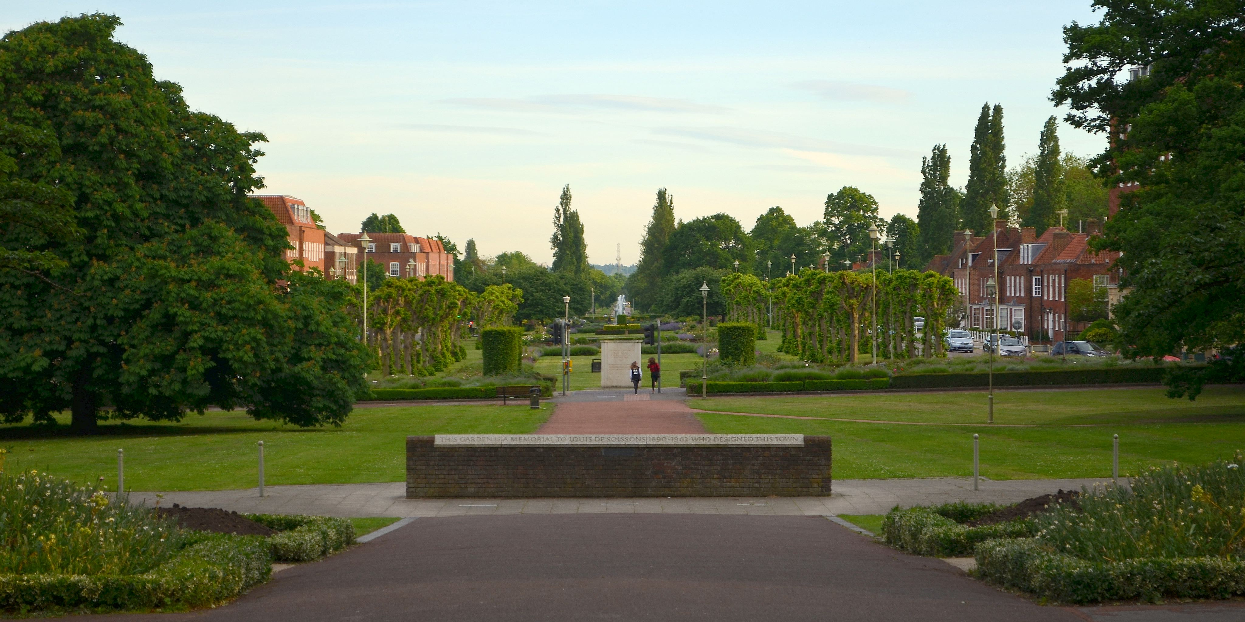 Welwyn Garden City memorial garden viewed from the north in May 2017.